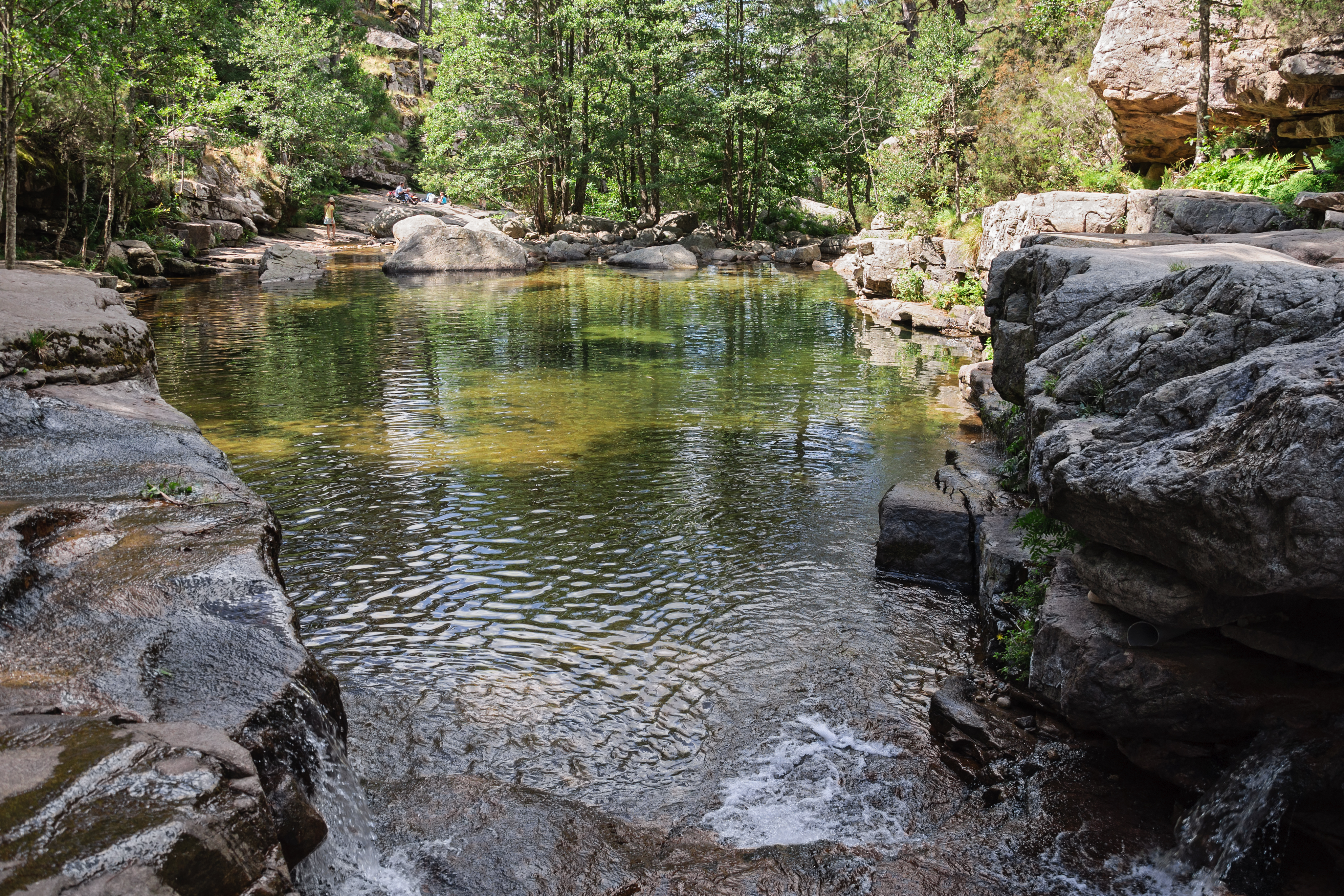 One of the natural pools of Aïtone river, Évisa, Southern Corsica, France